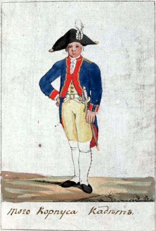 Cadet of Russian Army.